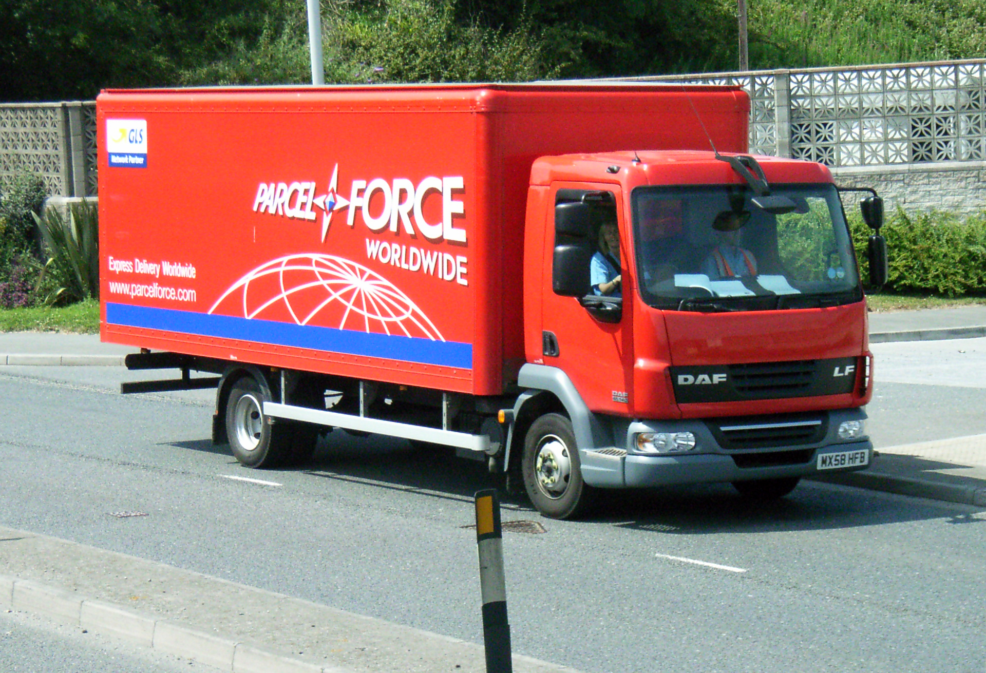 Embankment Plymouth 25 june 2009